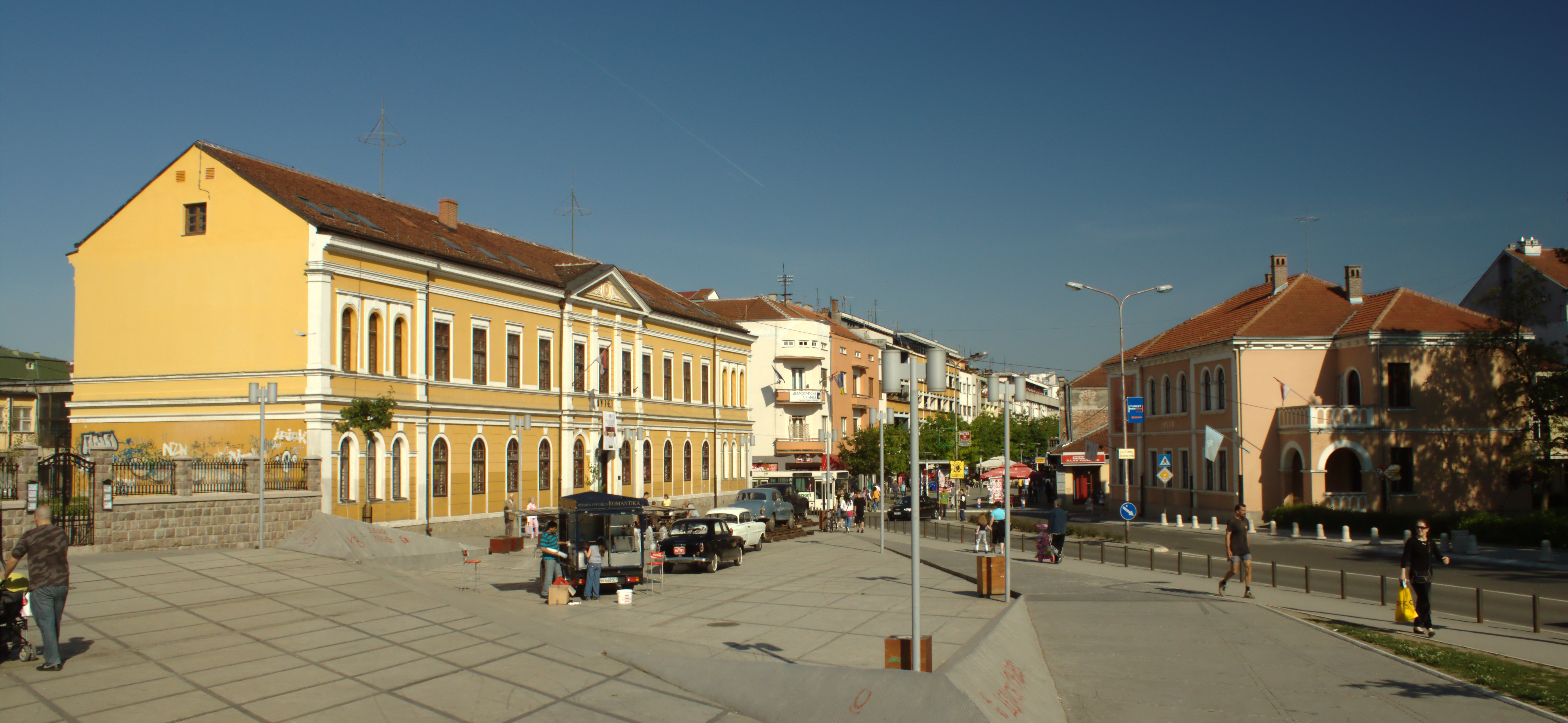 A space in front of the local museum building in the town of Kraljevo, Serbia